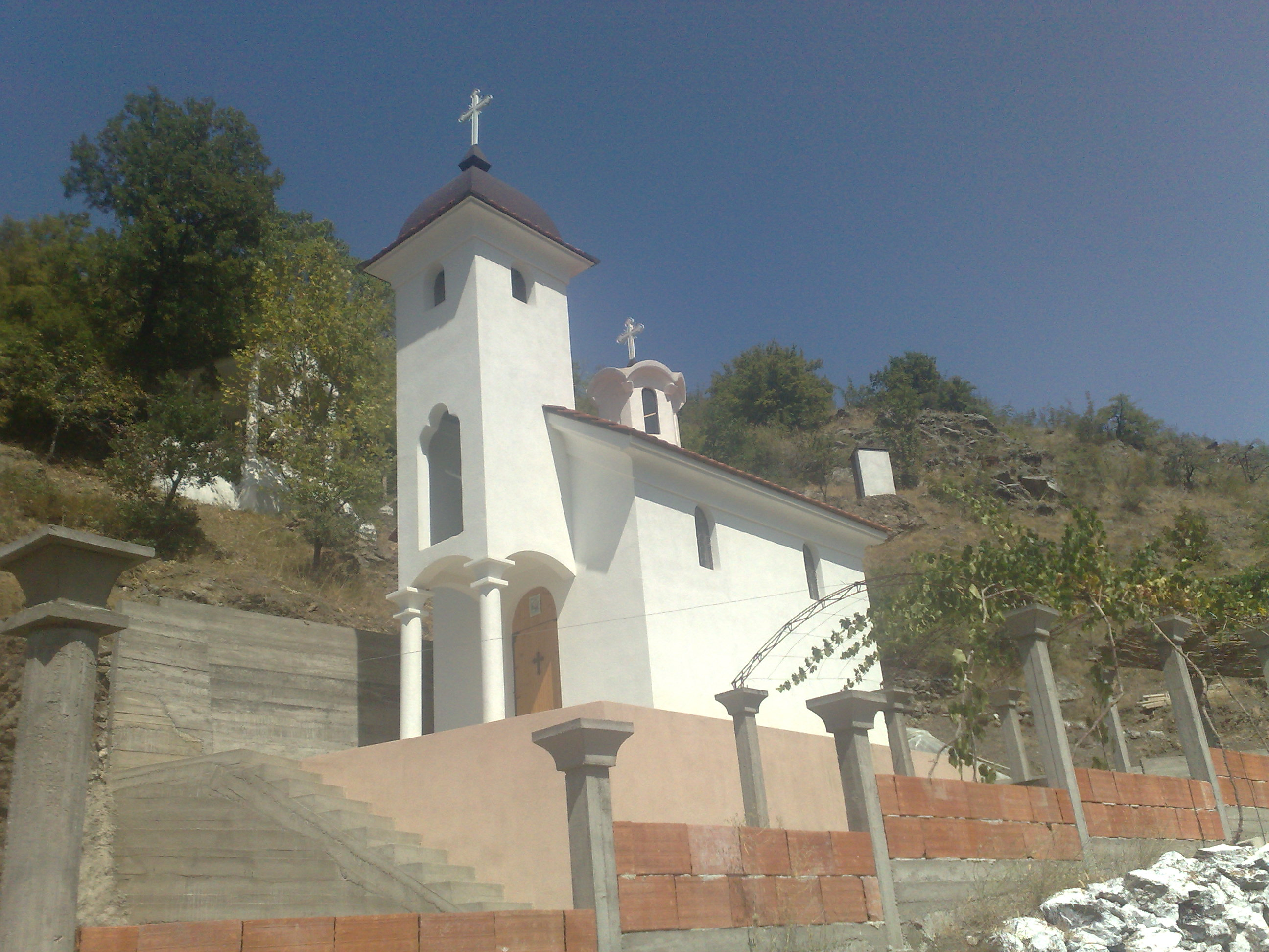 St.George church in village of Sopot, near Veles, Macedonia